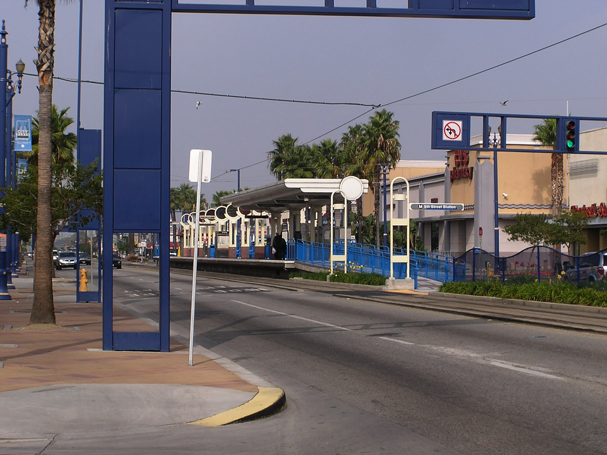 LACMTA Blue Line 5th St. Station in Long Beach